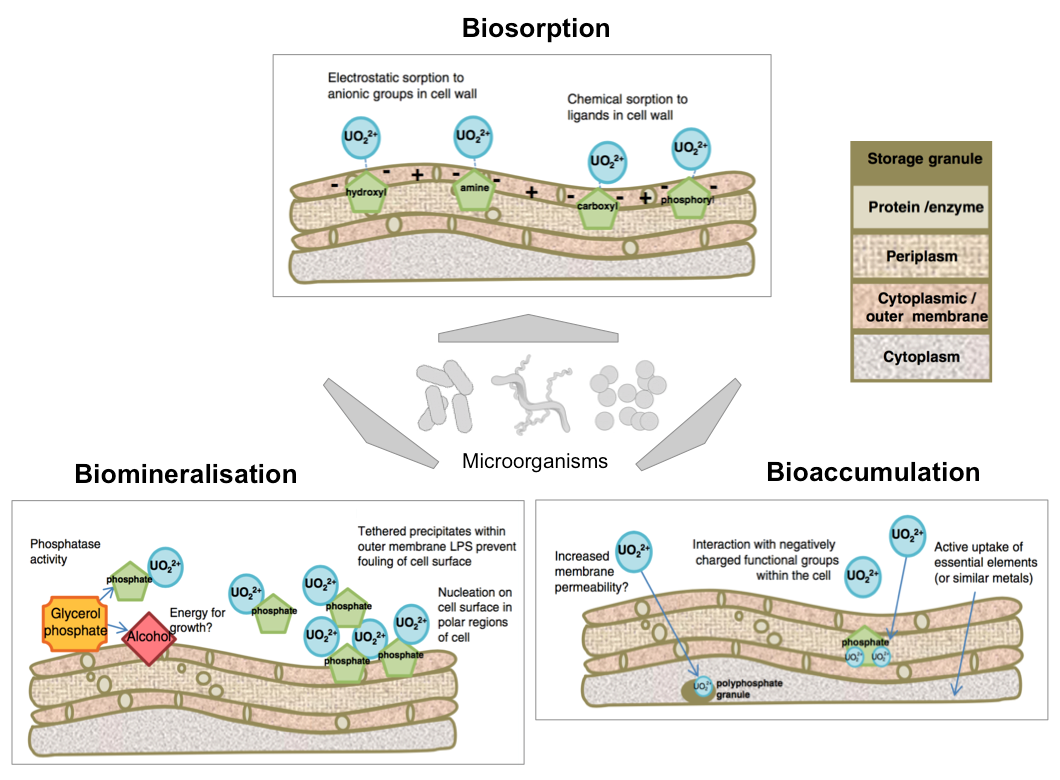 Strategies of biosorption, biomineralization and bioaccumulation for bioremediation of radioactive waste.